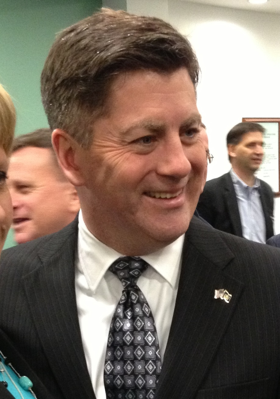 Lieutenant Governor of Pennsylvania Jim Cawley on November 8, 2013.